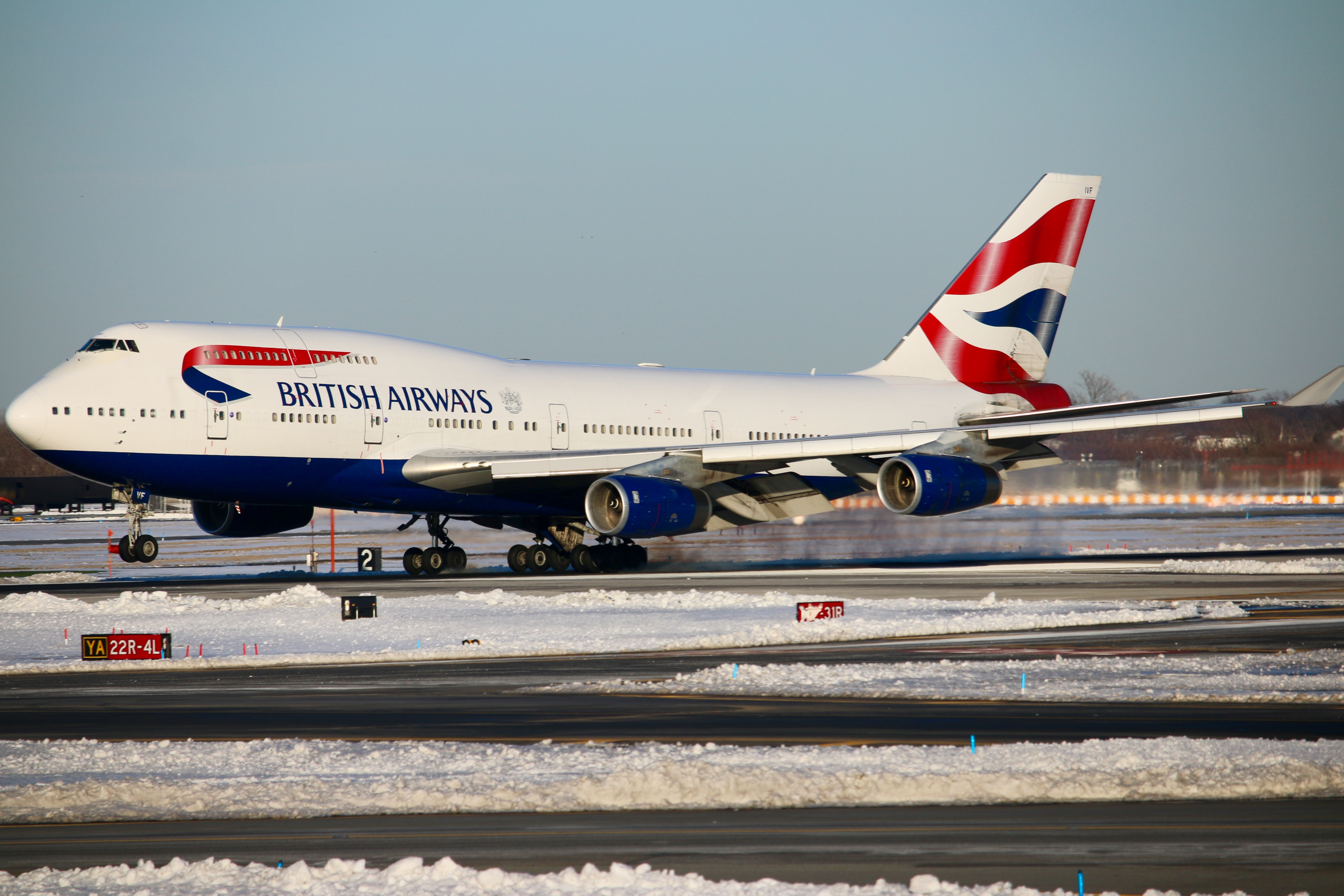 A British Airways 747-400 at New York JFK Airport.